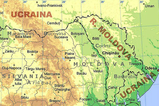 Physical map of Moldova and surrounding areas, in bitmap format.